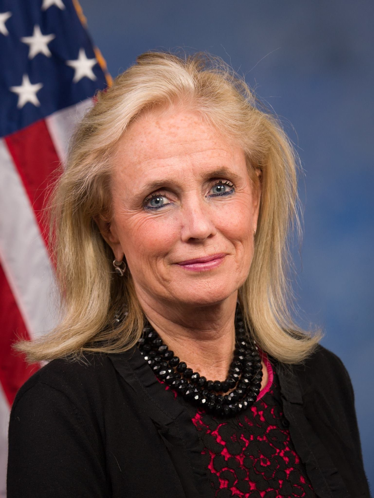 Debbie Dingell official portrait 114th Congress